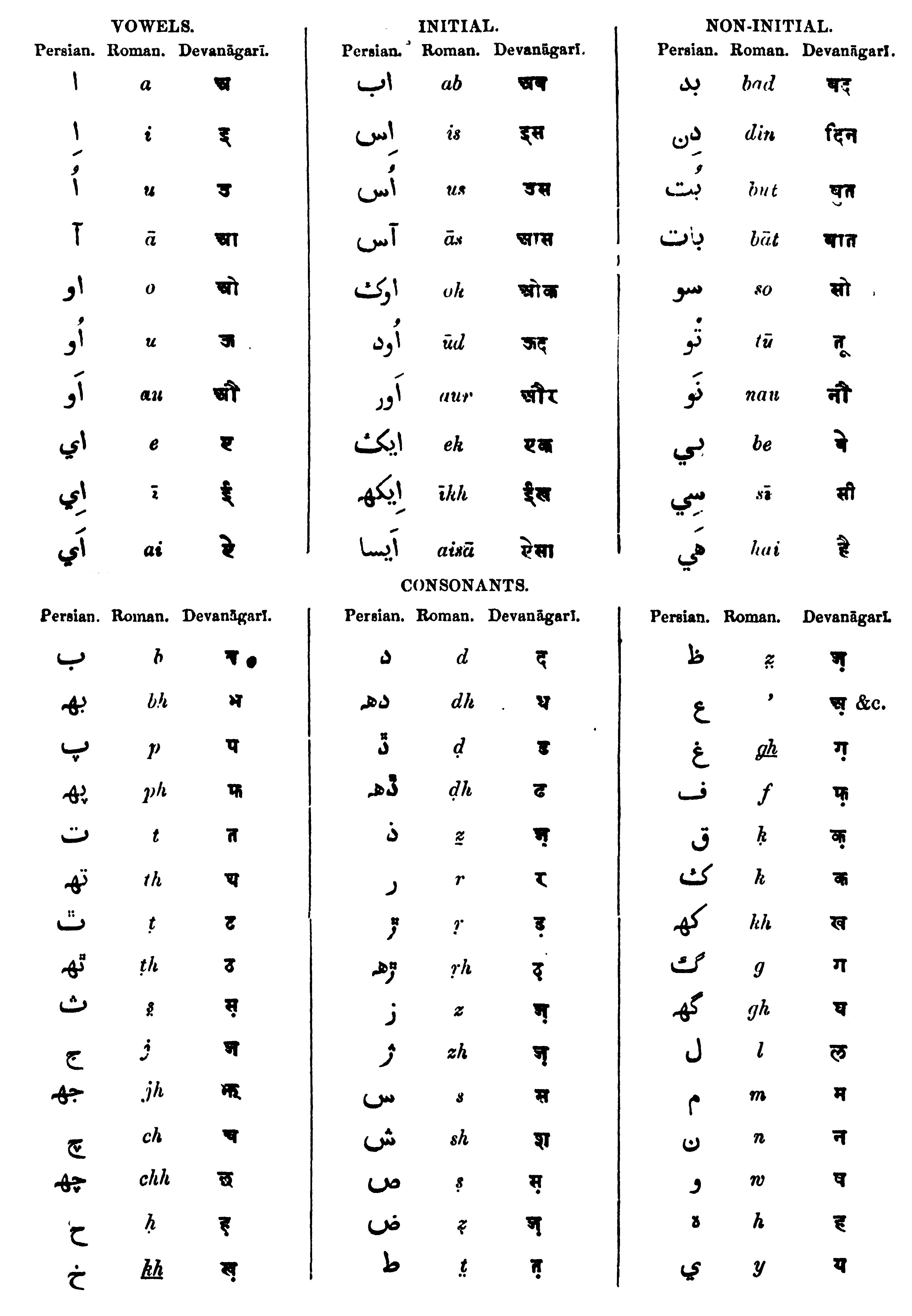 An adaptation of Hunterian/Jonesian transliteration, with both Devnagri and PersoArabic shown. Diacritics are used. Old form of Urdu letters are shown, especially for retroflexes.